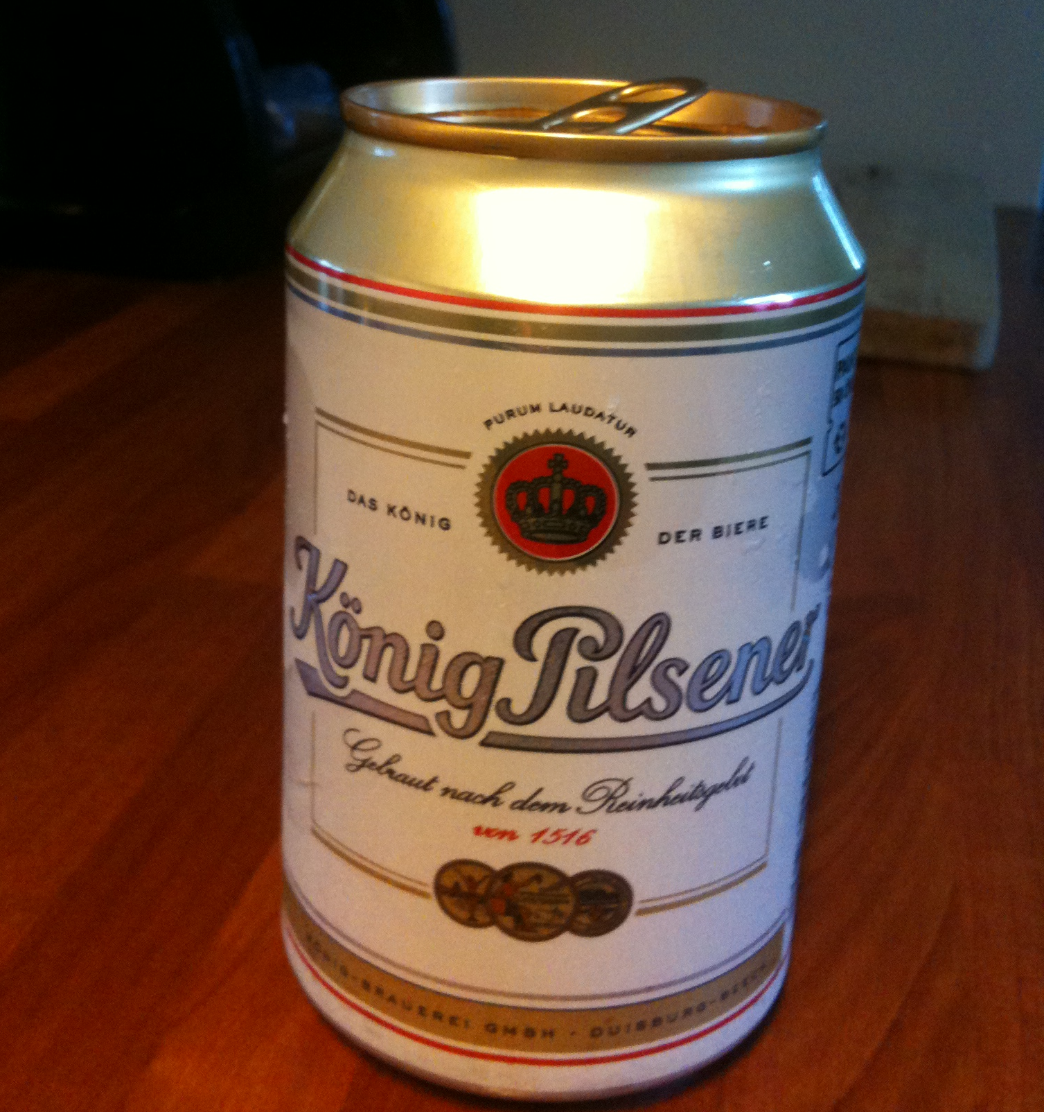 An image of a can of KöPi.